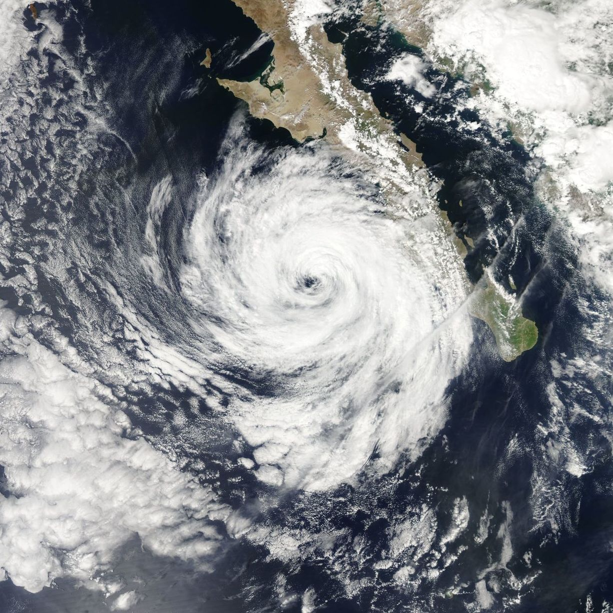 Tropical Storm Javier approaching Baja California on September 18